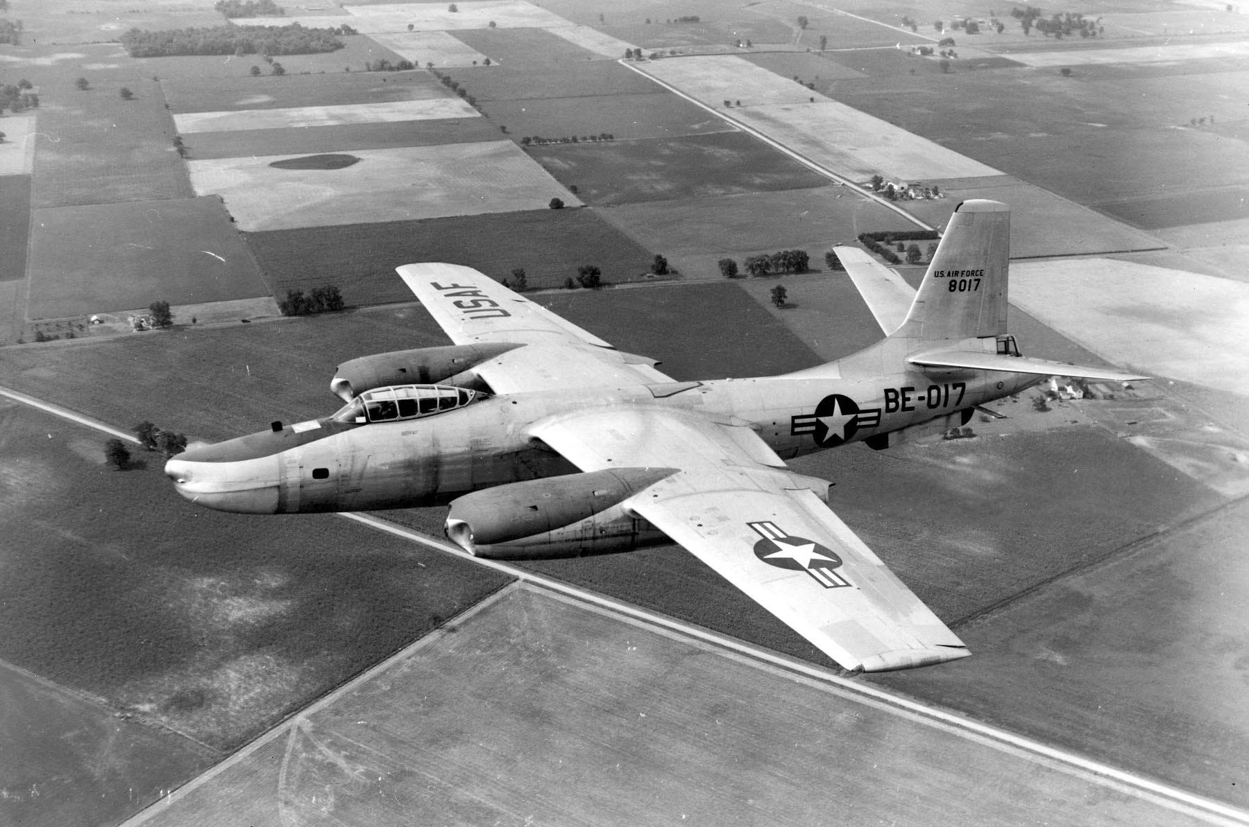 North American Aviation reconnaissance variant of the B-45C Tornado, USAF's first jet bomber